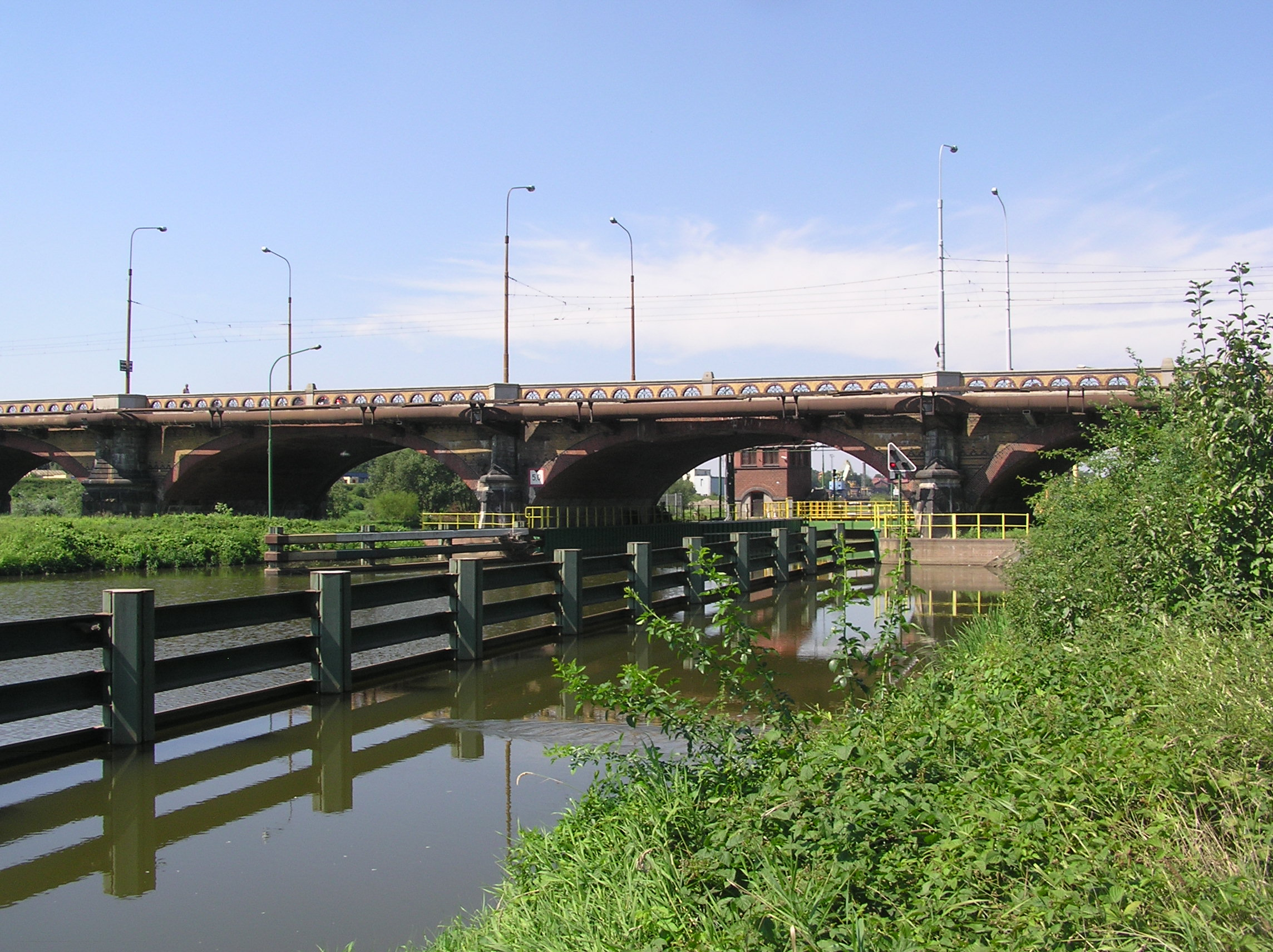 Wrocław, Oder River, Różanka Canal, Różanka Lock (and Osobowicki Bridge)